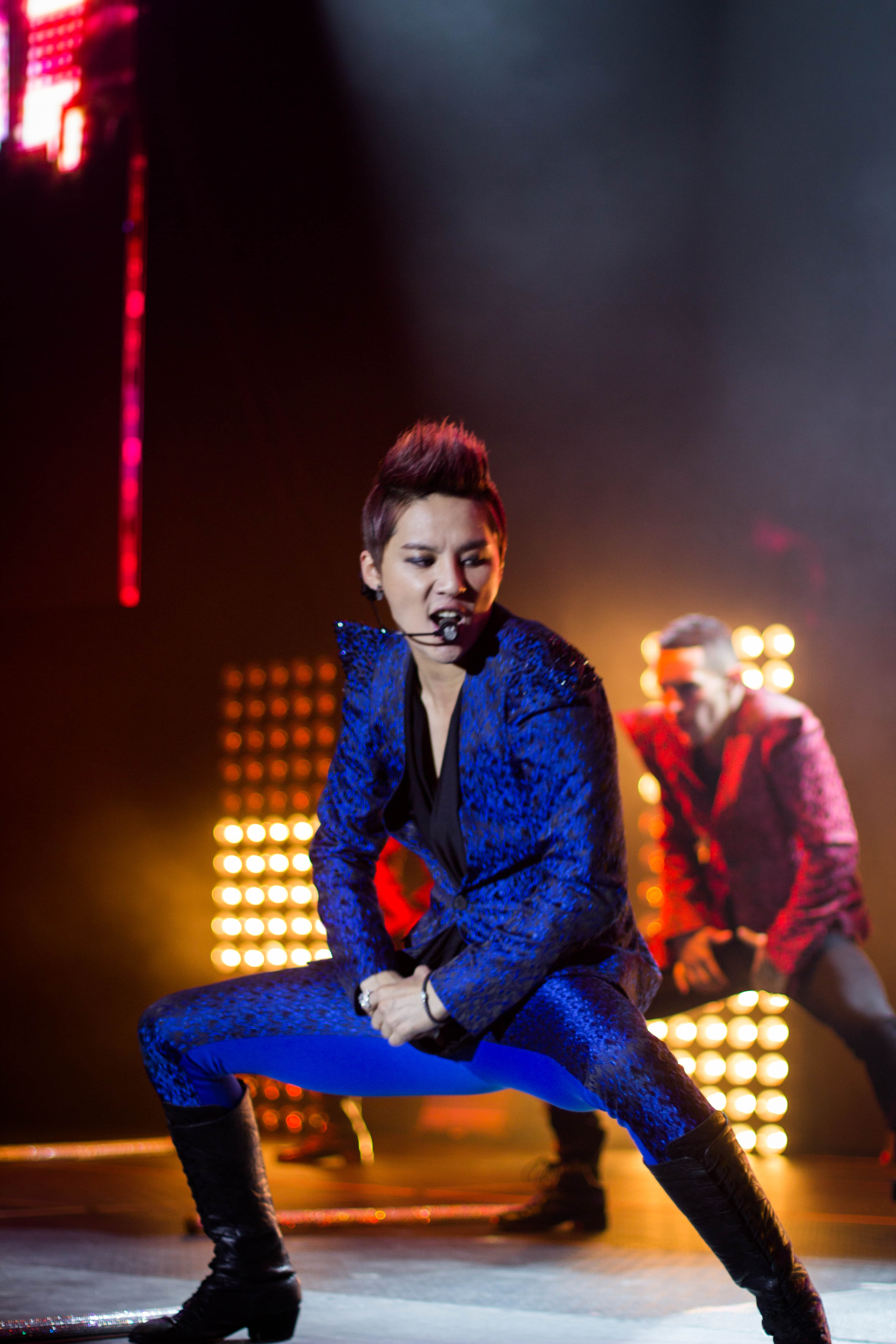 Xiah Junsu in Concert @ the Hollywood Palladium in Los Angeles, 2012